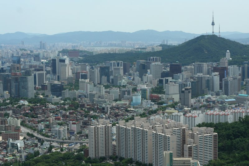 A view of Seoul from Ansan, South Korea